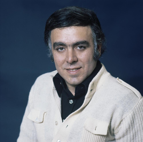 Portrait of Carlos do Carmo at the day of the Eurovision Song Contest 1976